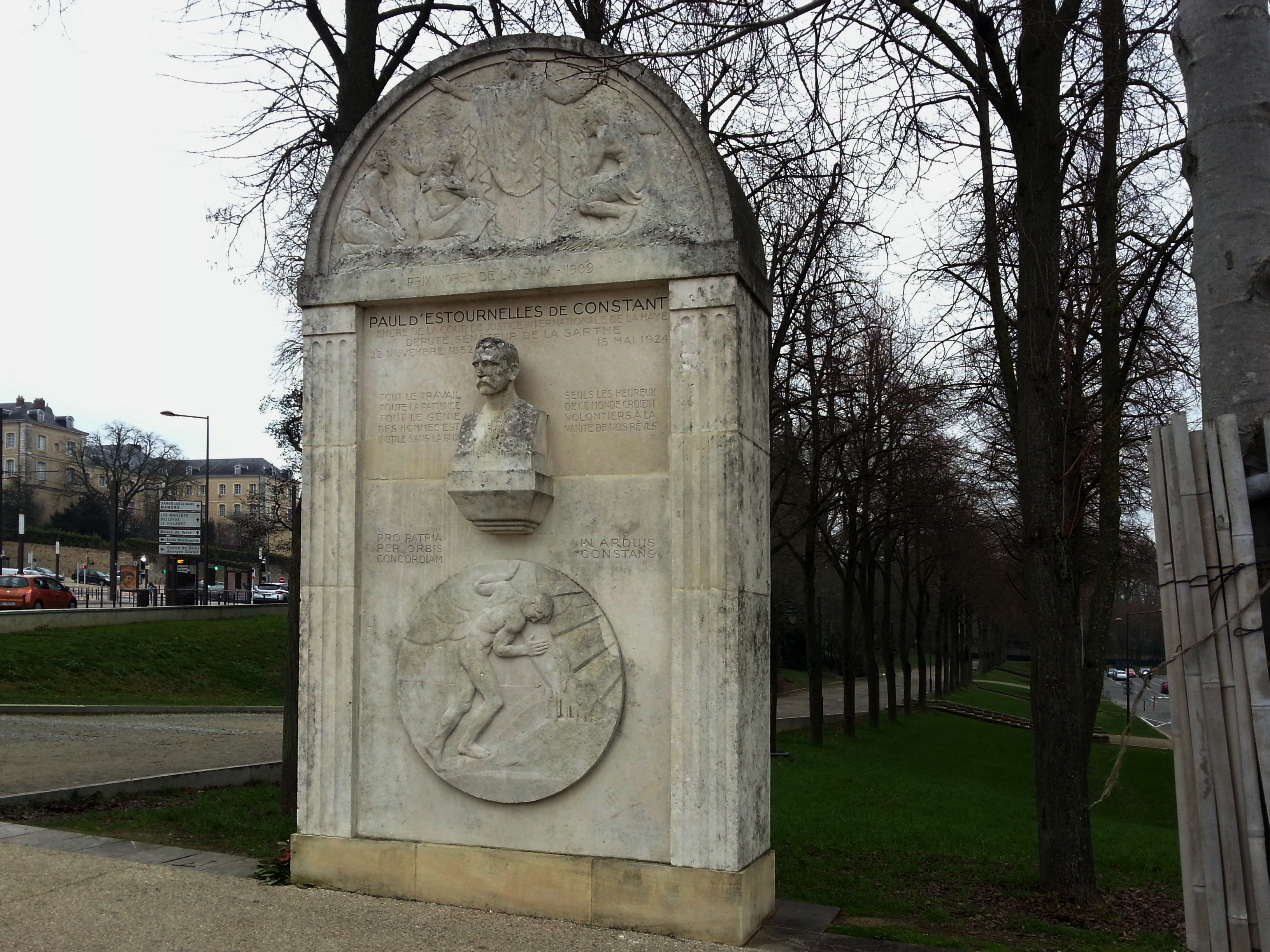 Statue commemorating the 1909 peace Nobel prize Paul d'Estournelles de Constant.